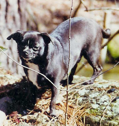 Overfeeding a Chihuahua can be a great danger to the dog's health, shortening its life and leading to diabetes.